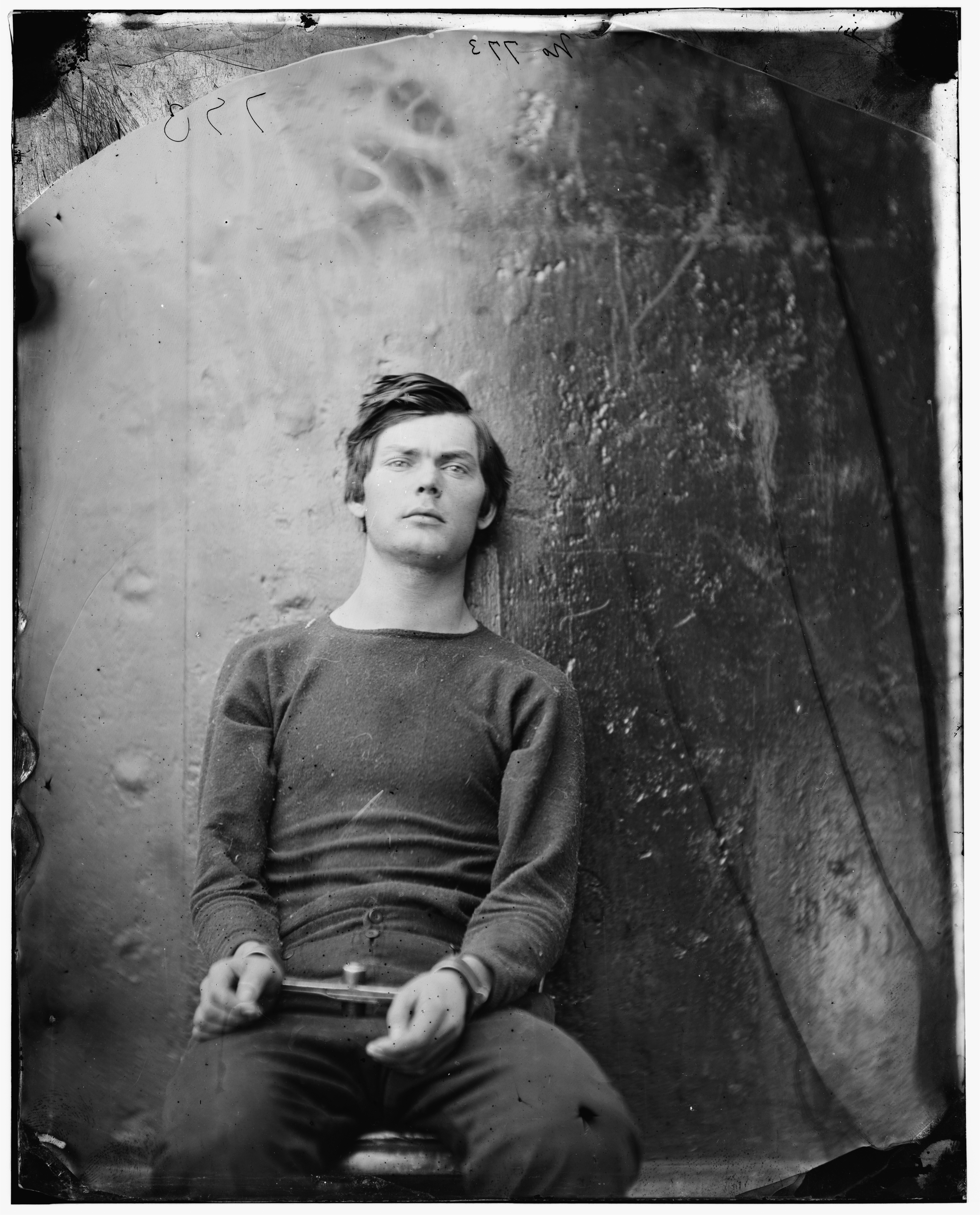 Lewis Powell (aka Lewis Payne), one of the conspirators in the Abraham Lincoln assassination. This photograph has background of dark metal, and was presumably taken on U.S.S. Saugus, where he was for a time confined.